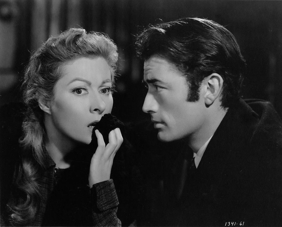 Greer Garson and Gregory Peck in a scene from the 1945 film The Valley of Decision.